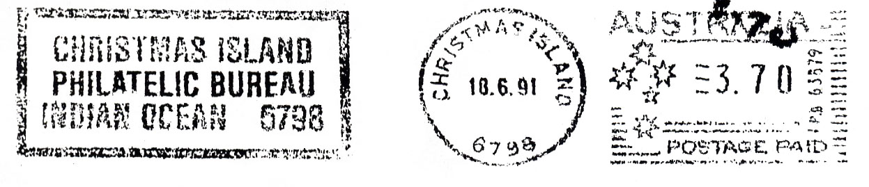 Meter stamp catalog image, Christmas Island type 1